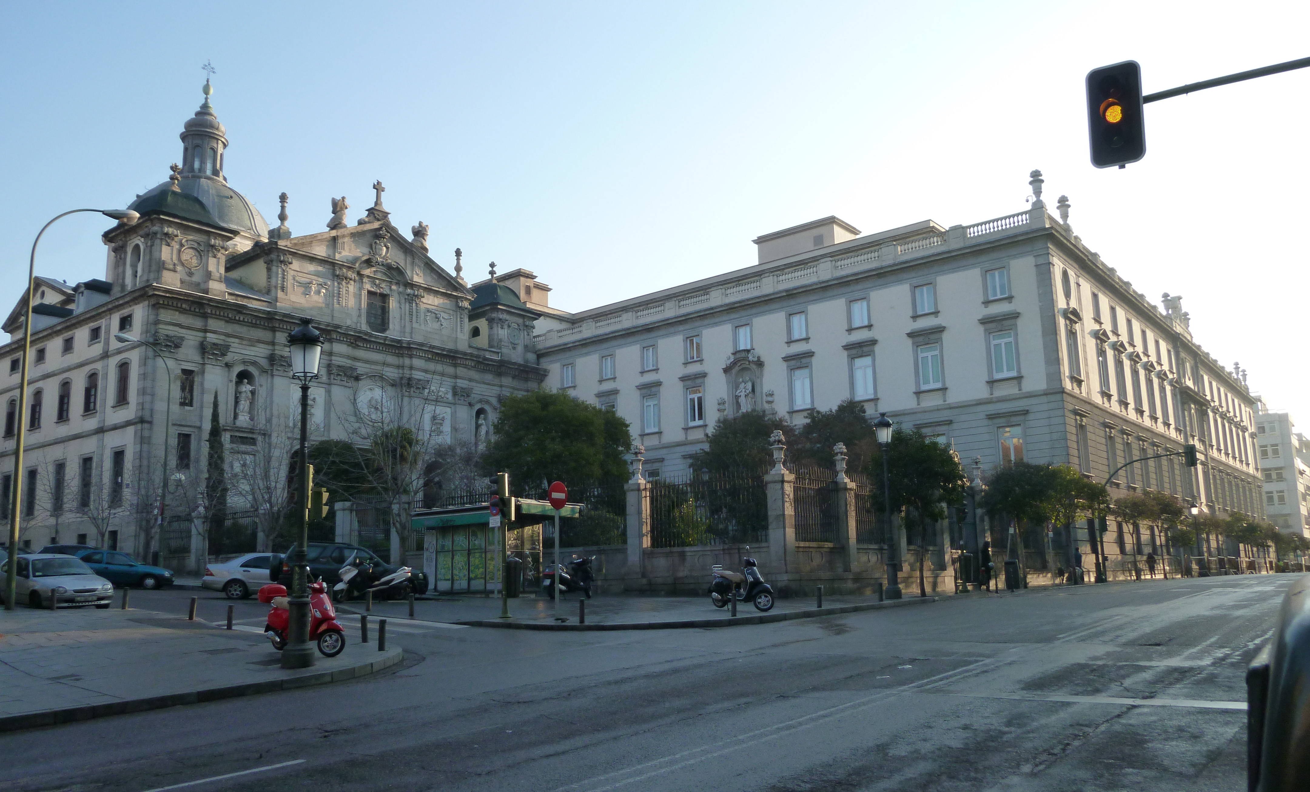 Former Salesas Reales Convent in Madrid (Spain). Left: St. Barbara's Church. Right: Supreme Court.